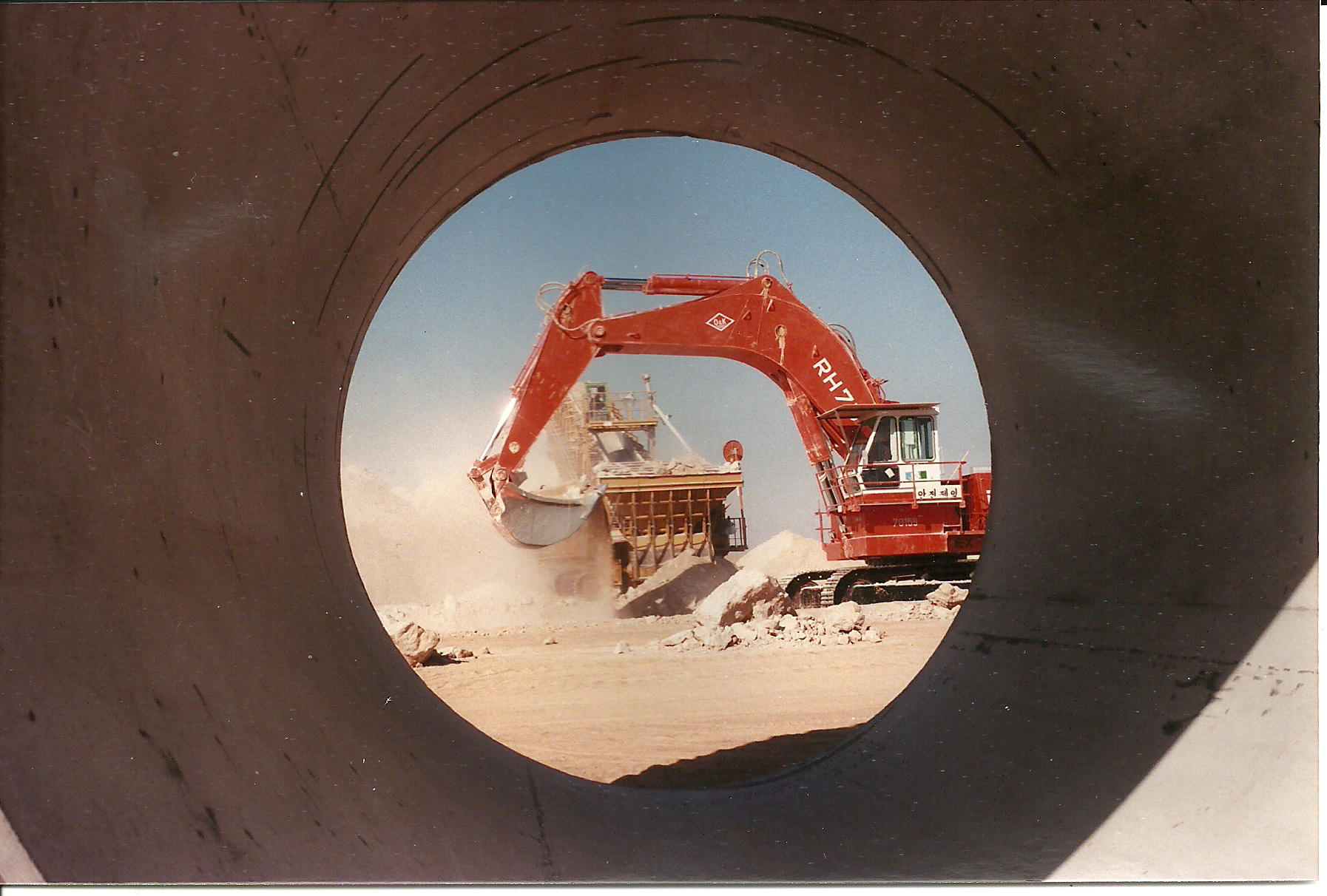 Work on trench digging for waterpipe, dimensions trench ca 10x10 m